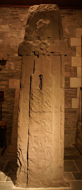 Fowlis Wester Sculptured Stone, Fowlis Wester, Perth and Kinross, Scotland